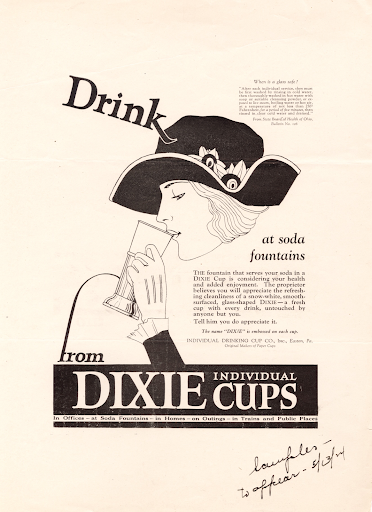 An advertisement from the Dixie Cup corporation highlighting one of the potential uses for their product.